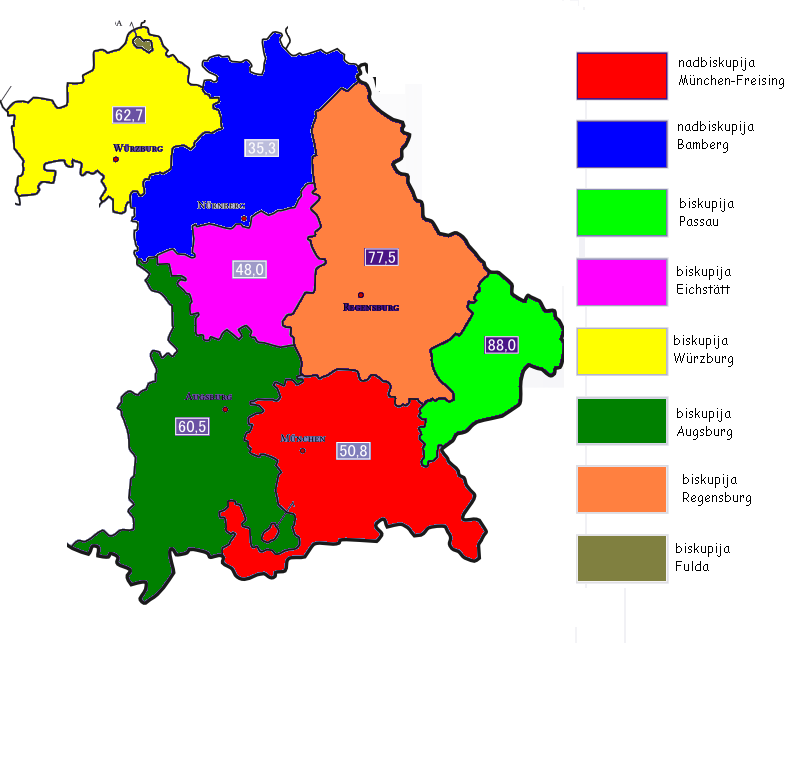 Roman Catholic population of the dioceses in Bavaria. .